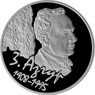 History and Culture of Belarus. Commemorative coins "V.Dunіn-Martsіnkevіch. 200 per year (" V.Dunin-Marcinkiewicz. 200 years ")